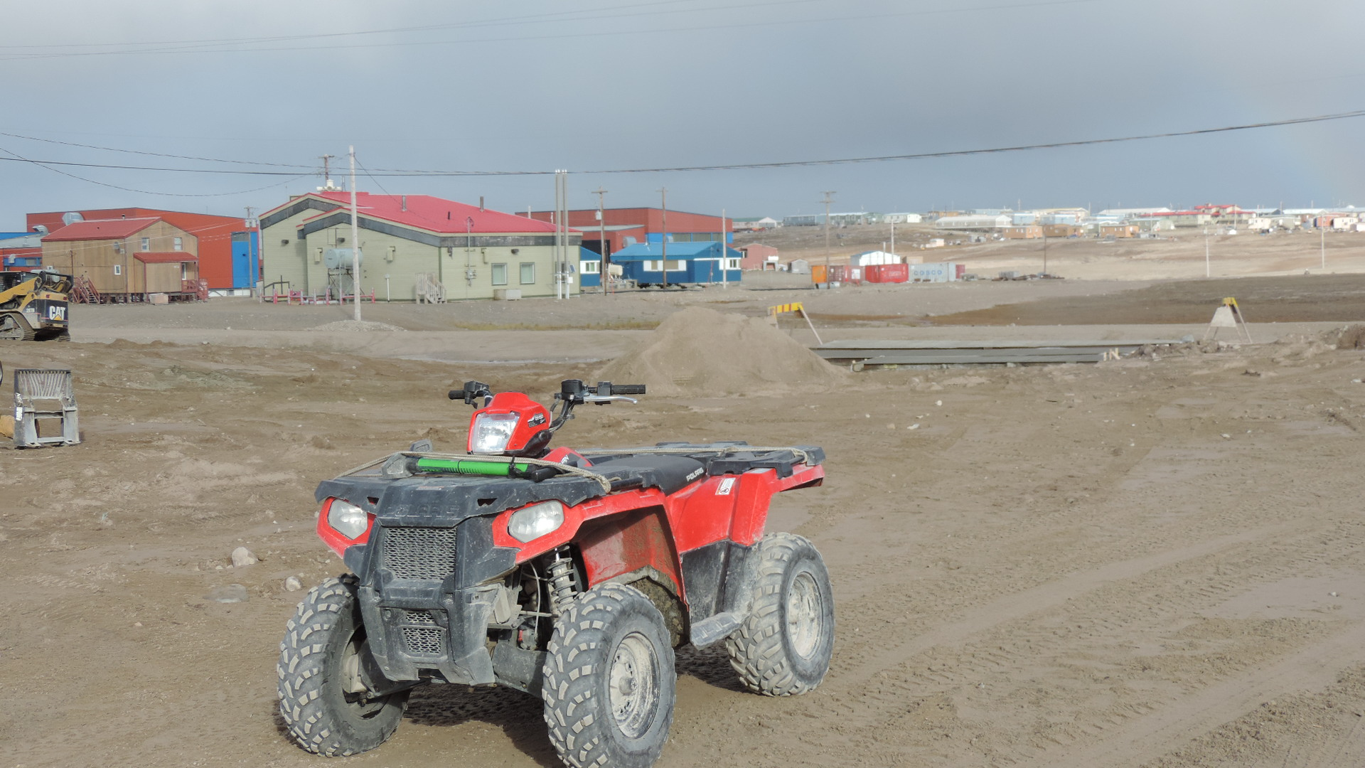 All terrain vehicles are a common mode of transport in Gjoa Haven, September 2019